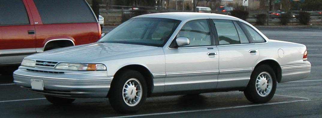 1995-1997 Ford Crown Victoria photographed in the USA.